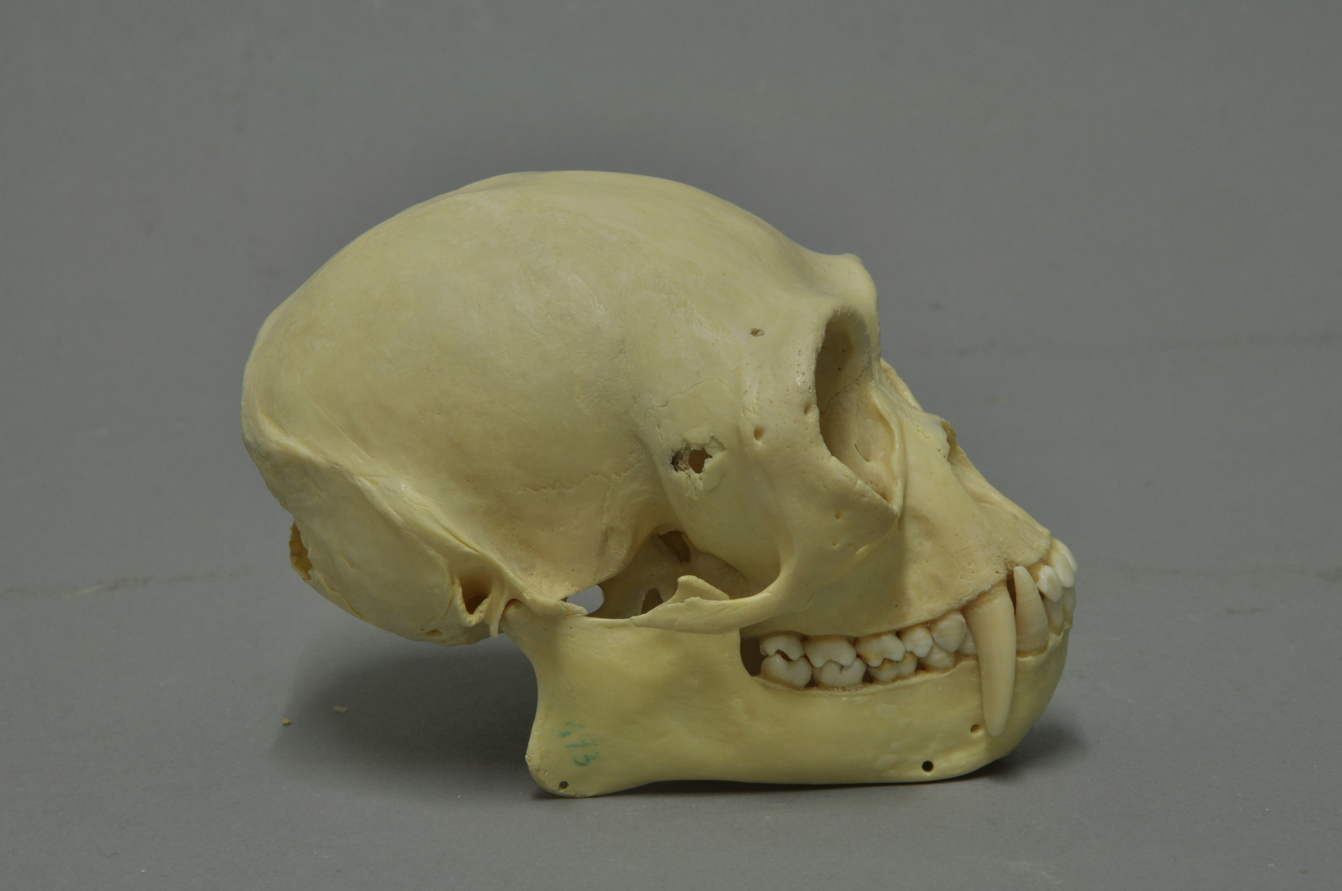 Lar gibbon Hylobates lar, skull, Coll. Museum Wiesbaden